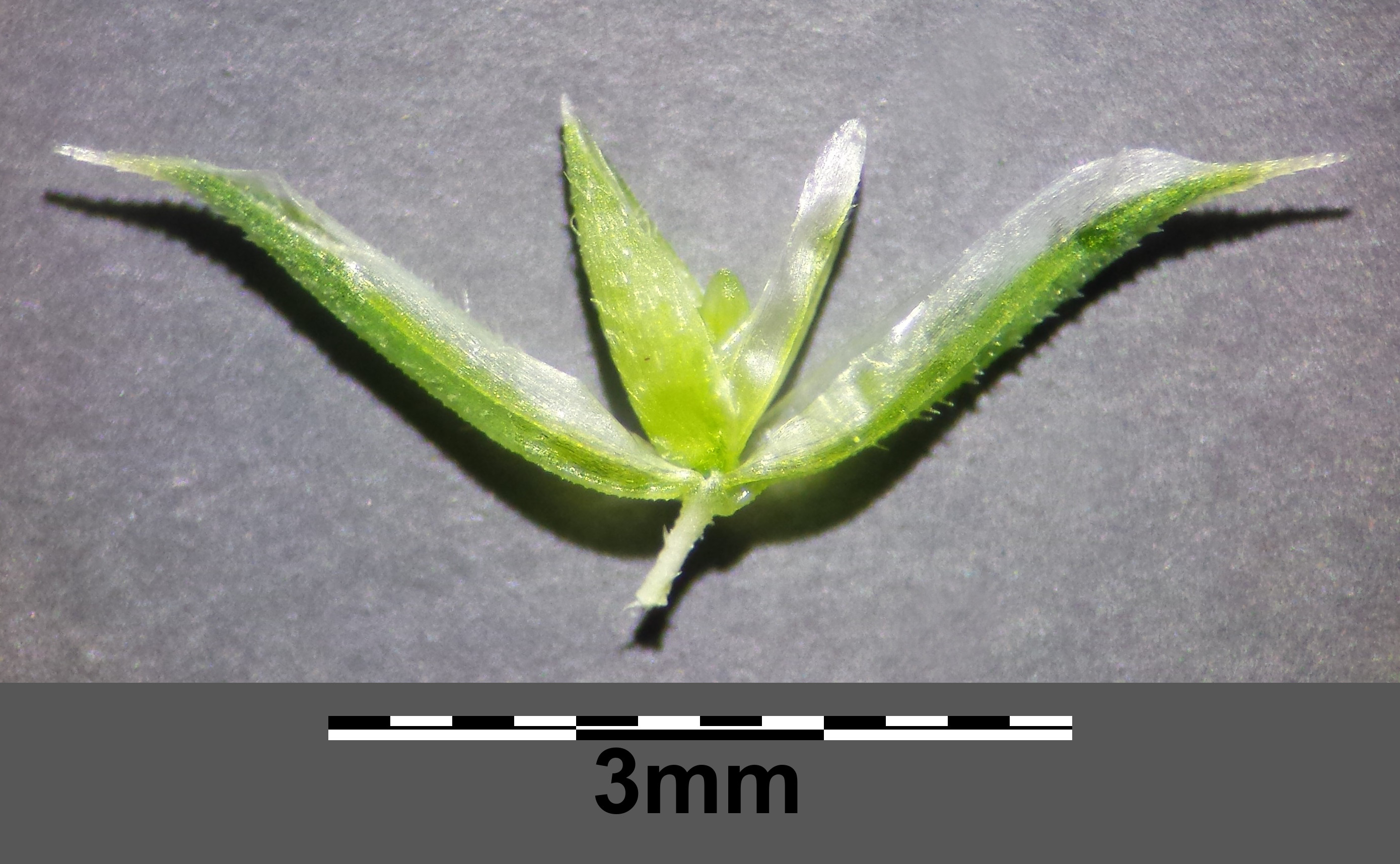 Spikelets (faned out) Taxonym: Phleum phleoides ss Fischer et al. EfÖLS 2008 ISBN 978-3-85474-187-9 Location: Waldberg in between Kleinebersdorf und Großrußbach, district Korneuburg, Lower Austria - ca. 334 m a.s.l. Habitat: semi-dry grassland